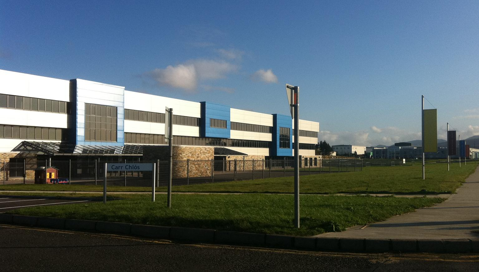 Áislann Ghaoth Dobhair, Derrybeg, Gweedore, Co Donegal, Ireland